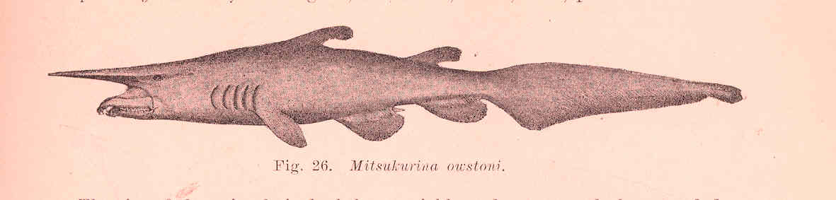 Goblin shark (Mitsukurina owstoni), from Fig. 26 of Illustrated Catalogue of the Fishes of South Australia, Adelaide, Australia: G. Hassell & Son.